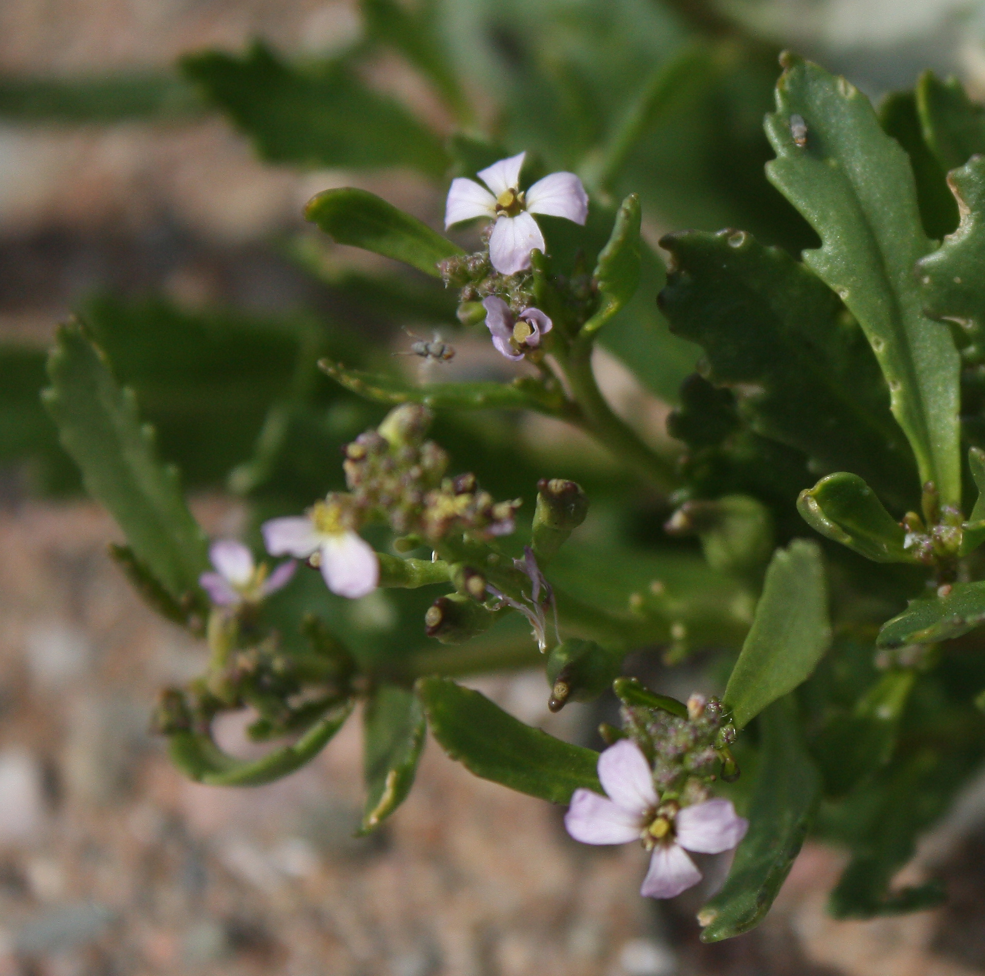 Cakile edentula, flowers. Observed in Saint-Siméon-de-Bonaventure, Gaspésie.